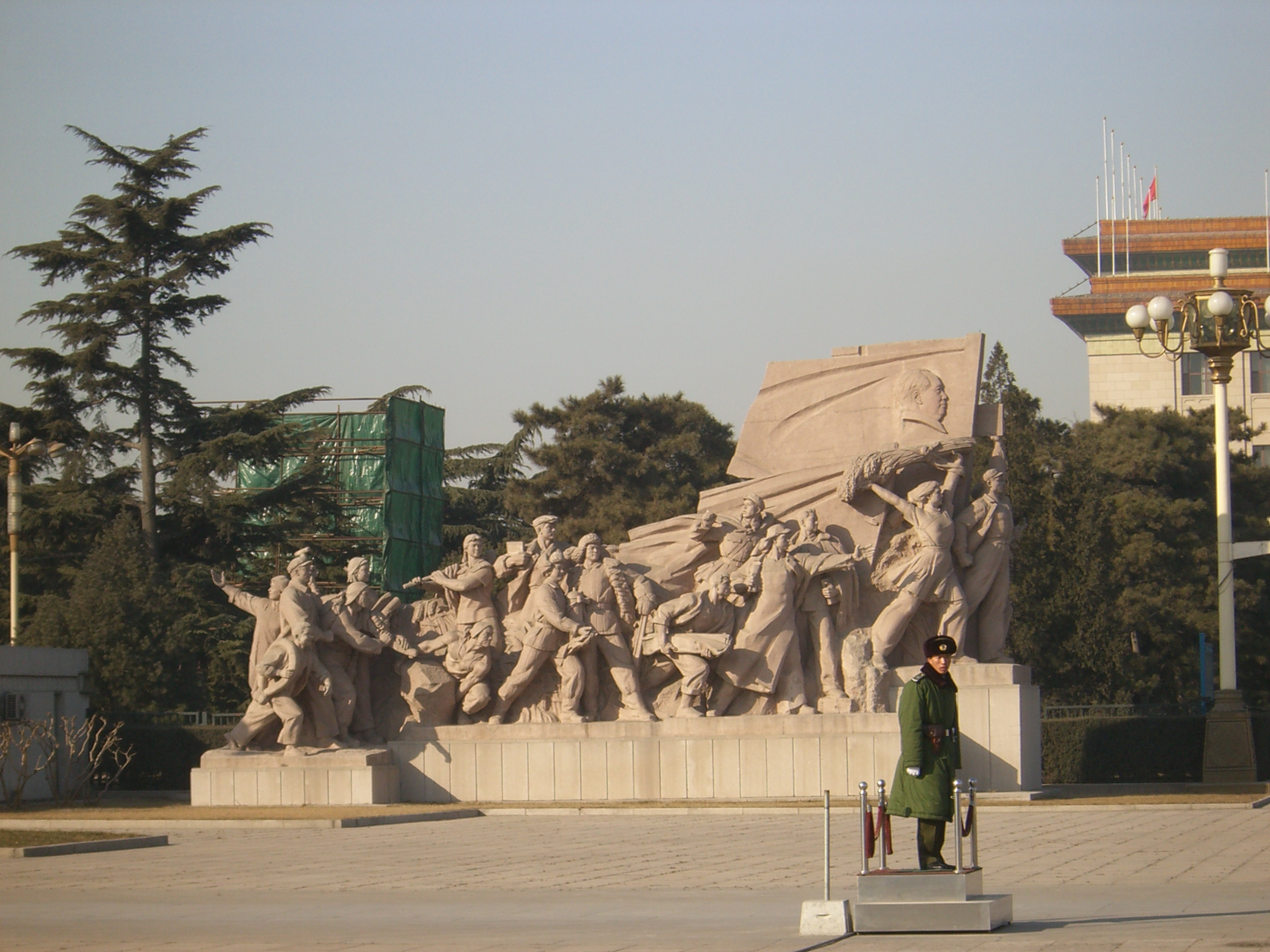 Mausoleum of Mao Zedong, Beijing, China